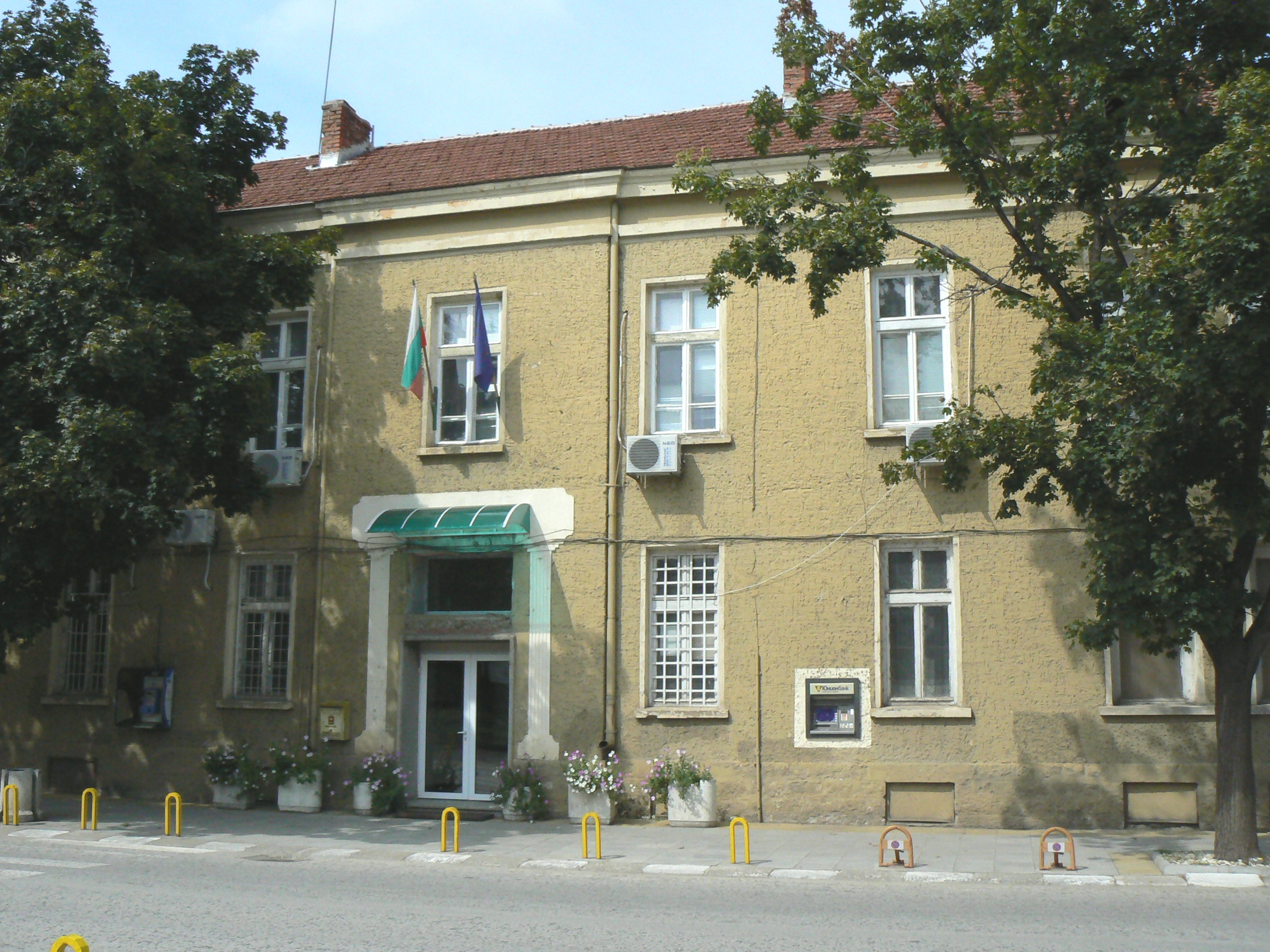 The building of Dolni Dubnik Municipality, Bulgaria